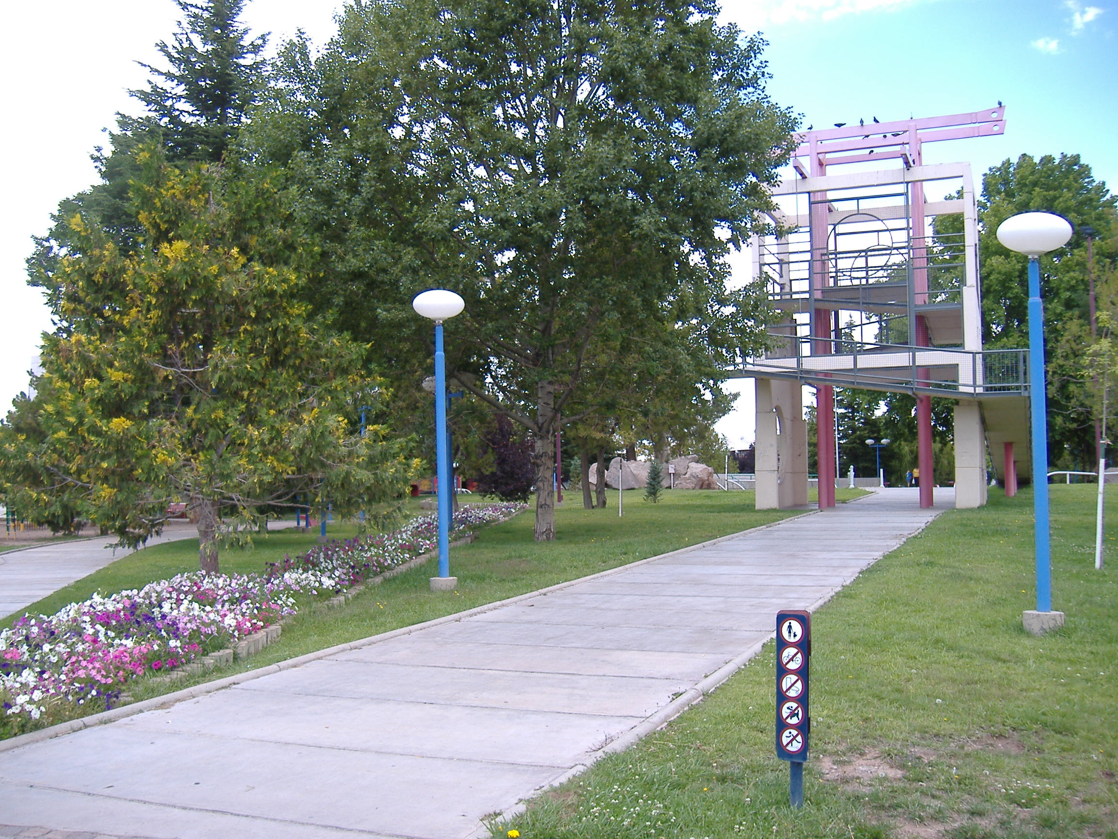 Plaza San Martín, the main urban square in the city of Malargüe, Mendoza, Argentina.